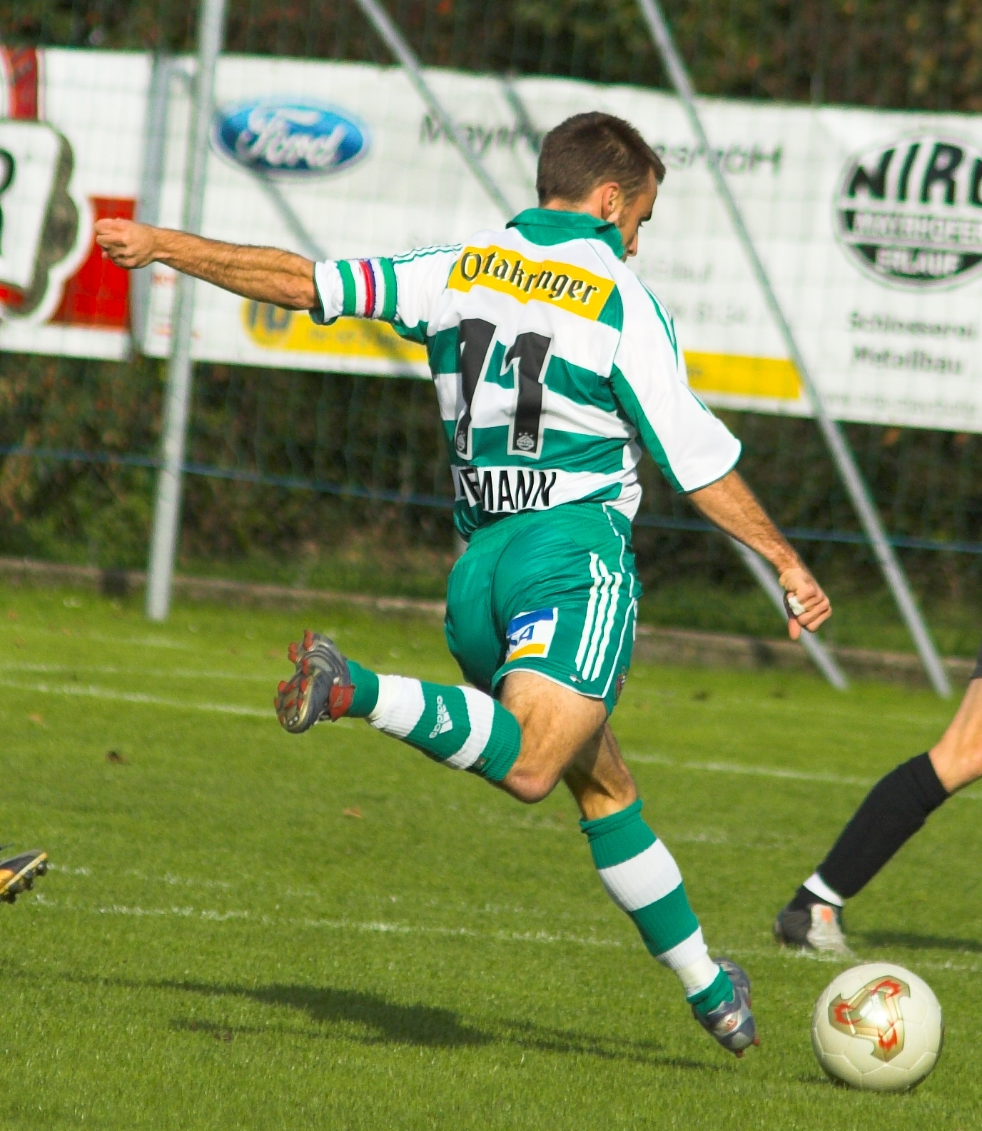 Steffen Hofmann, a football player